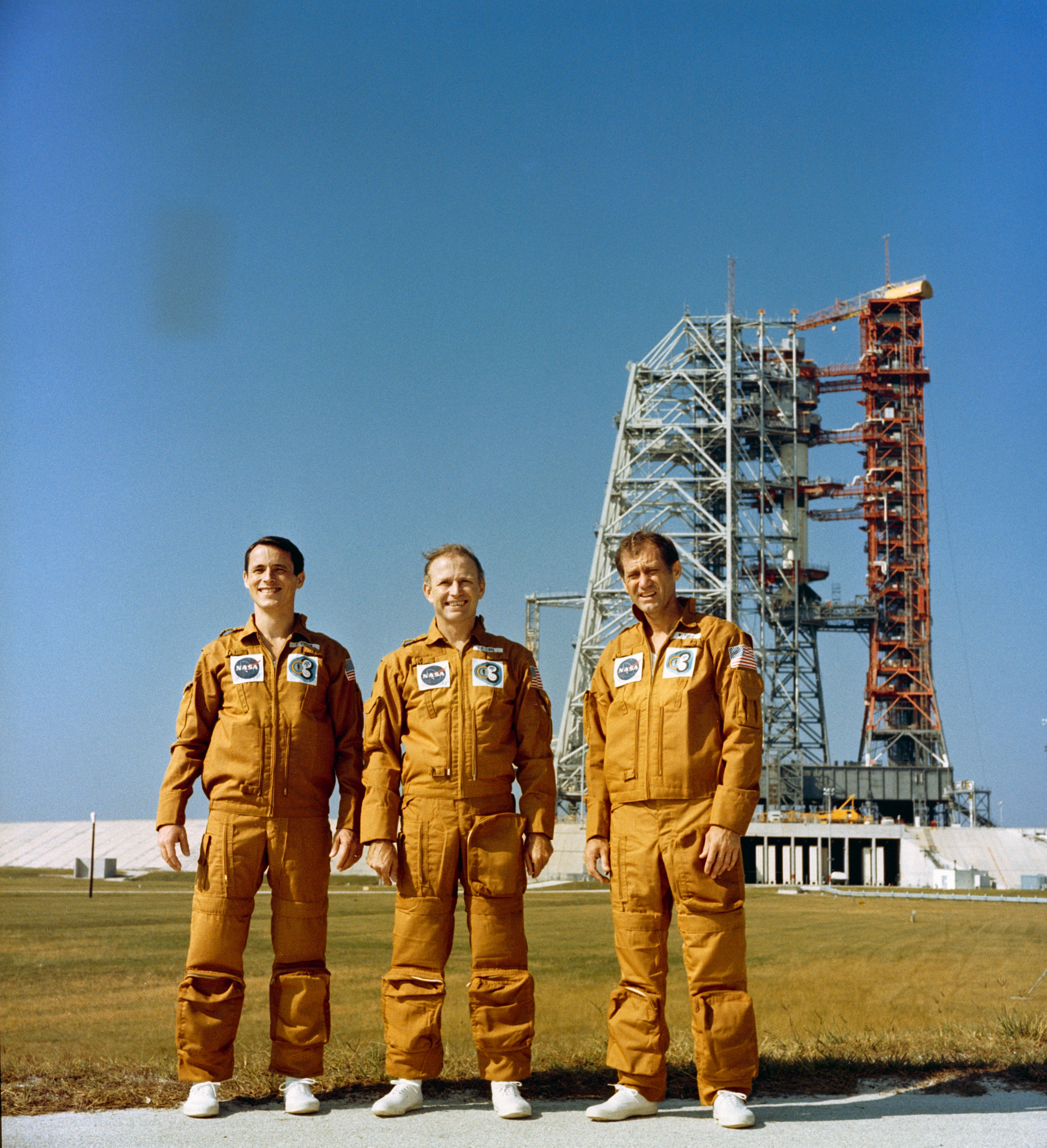 The three members of the Skylab 4 crew are photographed standing near Pad B, Launch Complex 39, Kennedy Space Center, Florida, during the preflight activity. They are, left to right, scientist-astronaut Edward G. Gibson, science pilot; astronaut Gerald P. Carr, commander; and astronaut William R. Pogue, pilot.